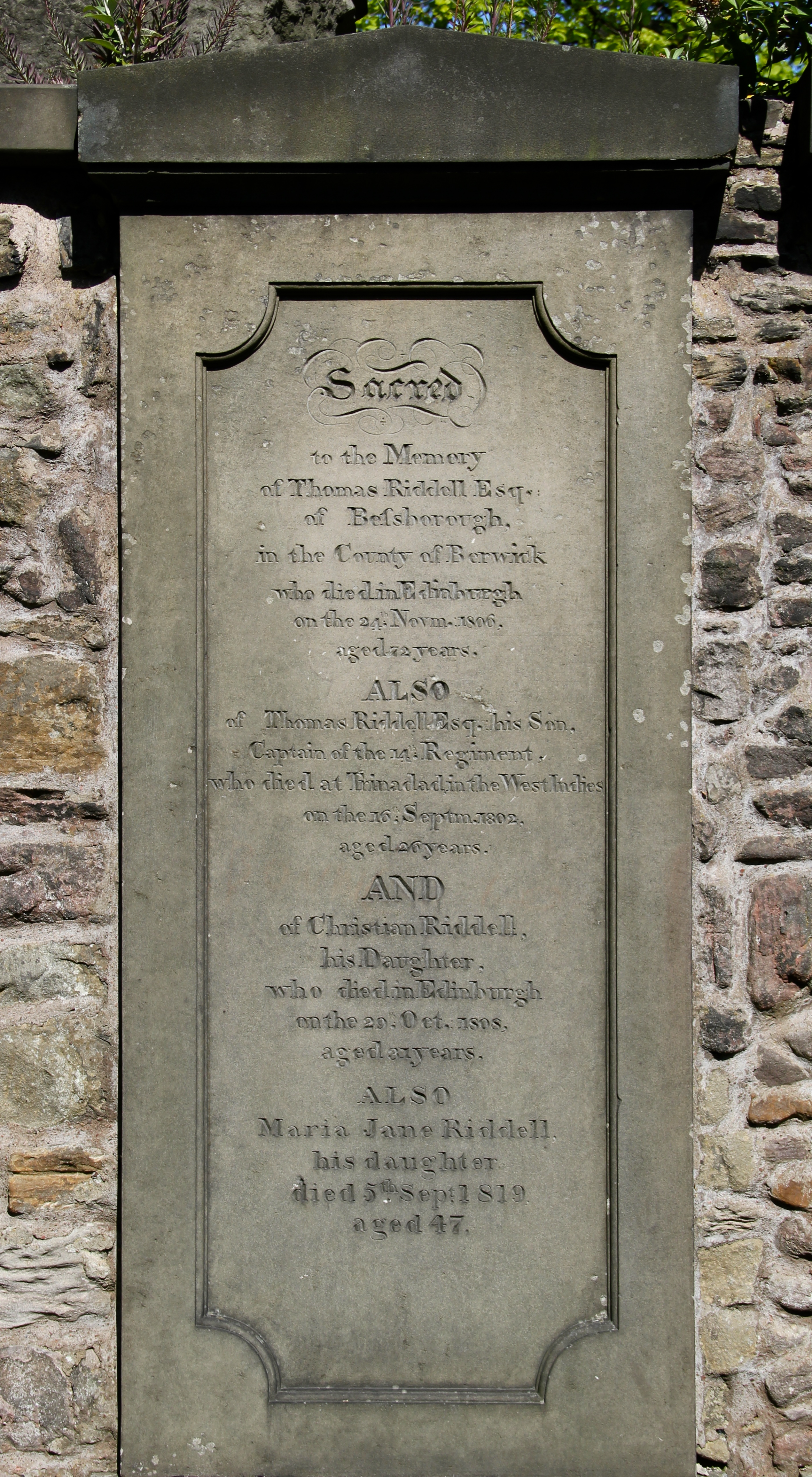 The grave of Thomas Riddell on Greyfriars Kirkyard in Edinburgh, United Kingdom. "Sacred to the Memory of Thomas Riddell Esq. of Befsborough, in the County of Berwick who died in Edinburgh on the 24.th Novm. 1806, aged 72 years. ALSO of Thomas Riddell Esq. his Son, Captain of the 14.th Regiment, who died at Trinidad in the West Indies on the 12.th Septm. 1802, aged 26 years. AND of Christian Riddell, his Daughter, who died in Edinburgh on the 29.th Oct, 1808, aged 31 years. ALSO Maira Jane Riddell, his daughter dies 5.th Sept. 1819 aged 47." It is believed that this grave was the inspiration for the name of a role in J. K. Rowling's Harry Potter fantasy series, as the character Lord Voldemort was born as Tom Riddle.